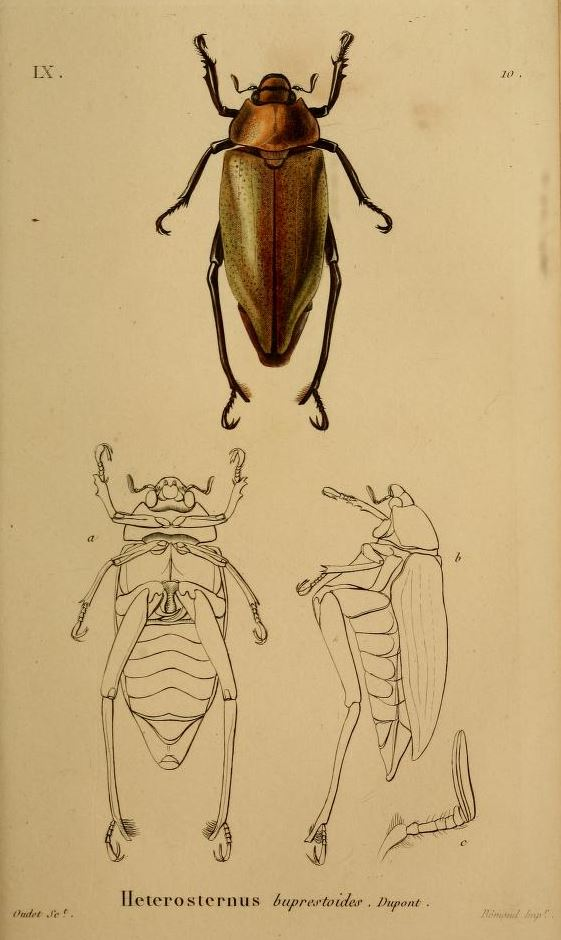 Heterosternus buprestoides